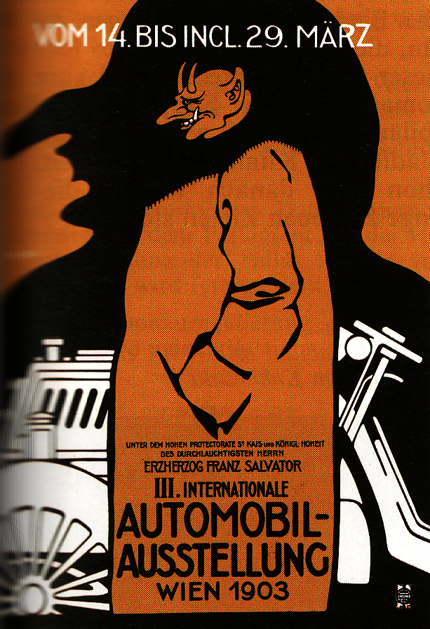 Poster of the 3rd International Autombil Expo 1903